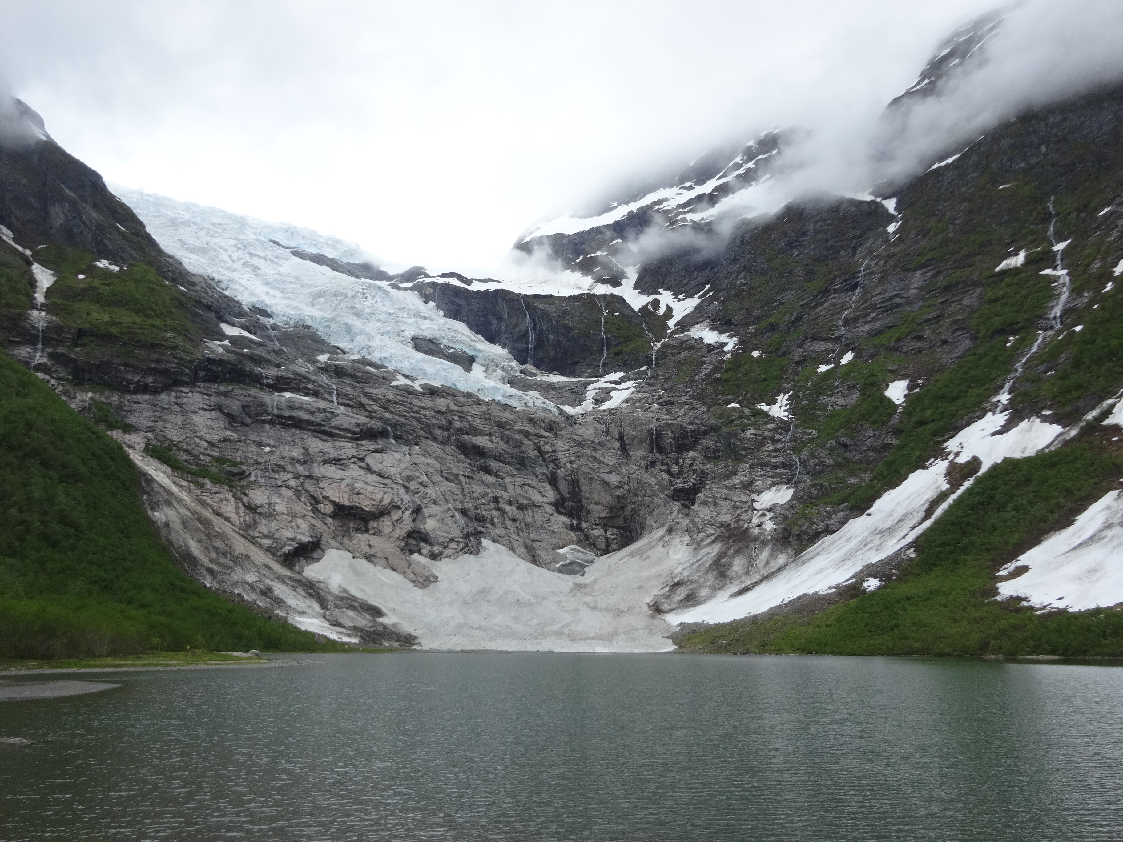 The Bøyabreen glacier